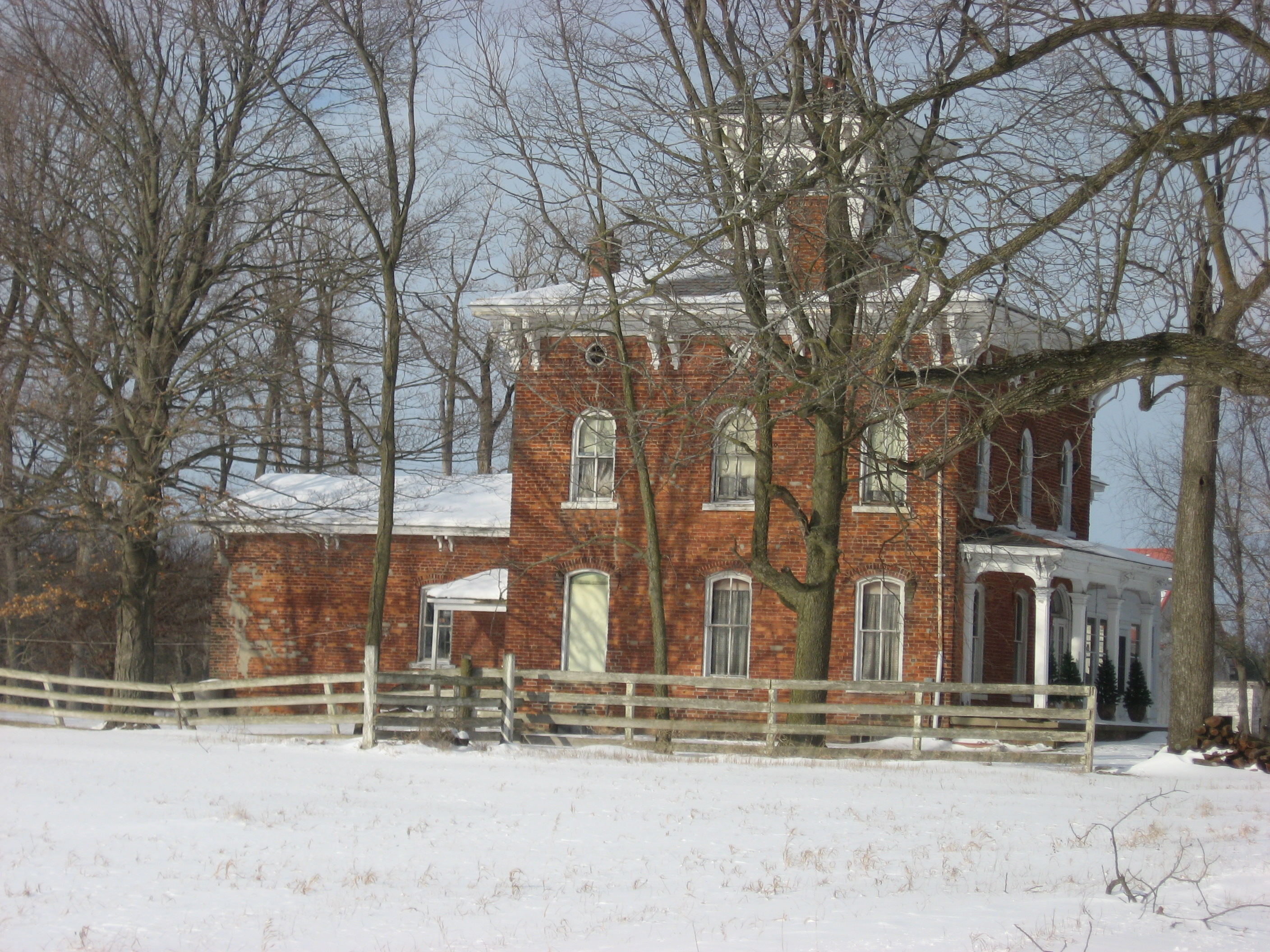 Southern side and front of the Fisher West Farmhouse, located at 17935 West Road northeast of Huntertown in Perry Township, Allen County, Indiana, United States. Built in 1860, it is listed on the National Register of Historic Places along with the rest of the farmstead.